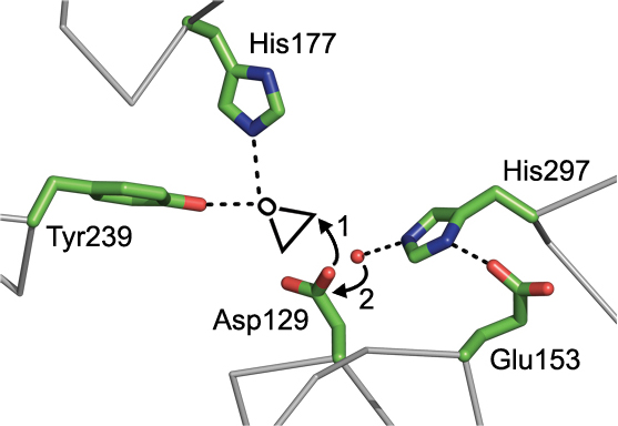 The active site of Cif; PDB ID 3KD2